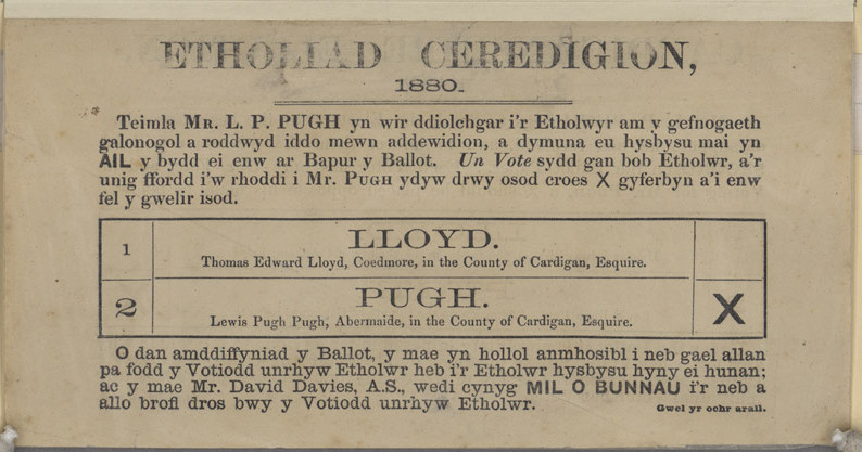 Cardiganshire… Teimla Mr L P Pugh